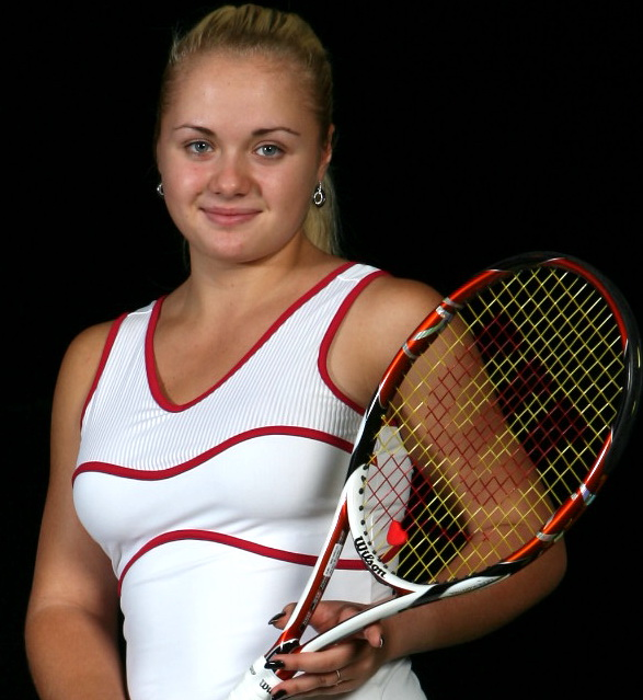 Junior tennis player Jana Buchina